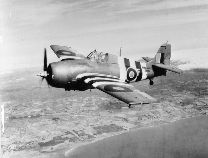 The Royal Navy during the Second World War A Fleet Air Arm Grumman Wildcat of No 846 Squadron Fleet Air Arm based at Eglington, Northern Ireland, in flight over the coast. The aircraft displays the stripes carried by aircraft of the Allied Expeditionary Force during the Normandy landings.